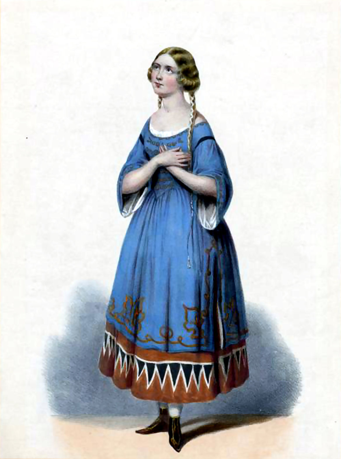 Jenny Lind as Vielka, in Meyerbeer's opera (1847)